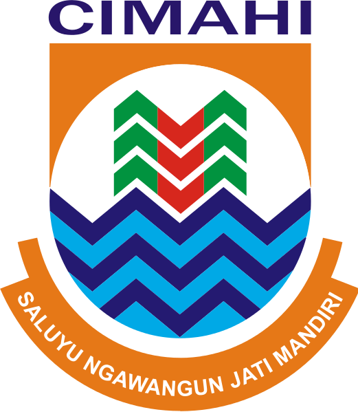 Shield of the city of Cimahi (Indonesia)